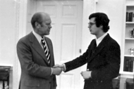 The photo contact sheet, identified as B1541 by the White House Photographic Office (WHPO), is housed at the Gerald R. Ford Presidential Library, a branch of the National Archives and Records Administration (NARA). This file is a 200 dpi photo contact sheet having images from roll of film B1541 of the August 9, 1974 - January 20, 1977 Gerald R. Ford White House Photographic Office Series A0001-A9999 and B0001-B2886 photographs. The date on the photo contact sheet is the date the roll of film was processed, not necessarily the date the photographs were taken. See table below for additional details.